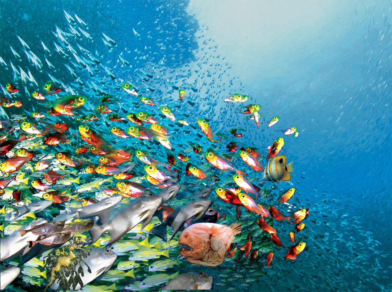 Swirling fish schools from off the Turks and Caicos islands